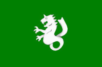 Flag of the fictional country Ametris in the Fullmetal Alchemist